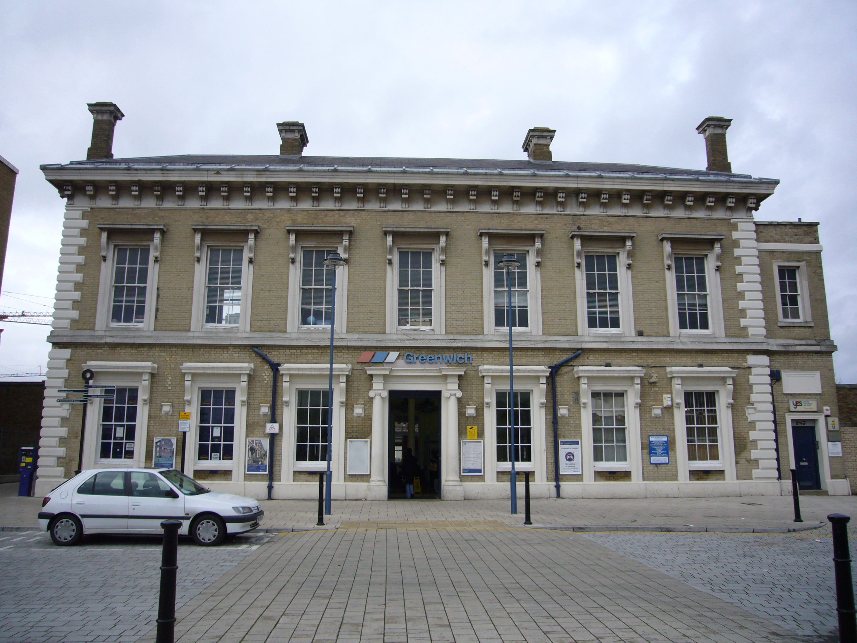 The exterior of Greenwich railway station (and DLR), South East London